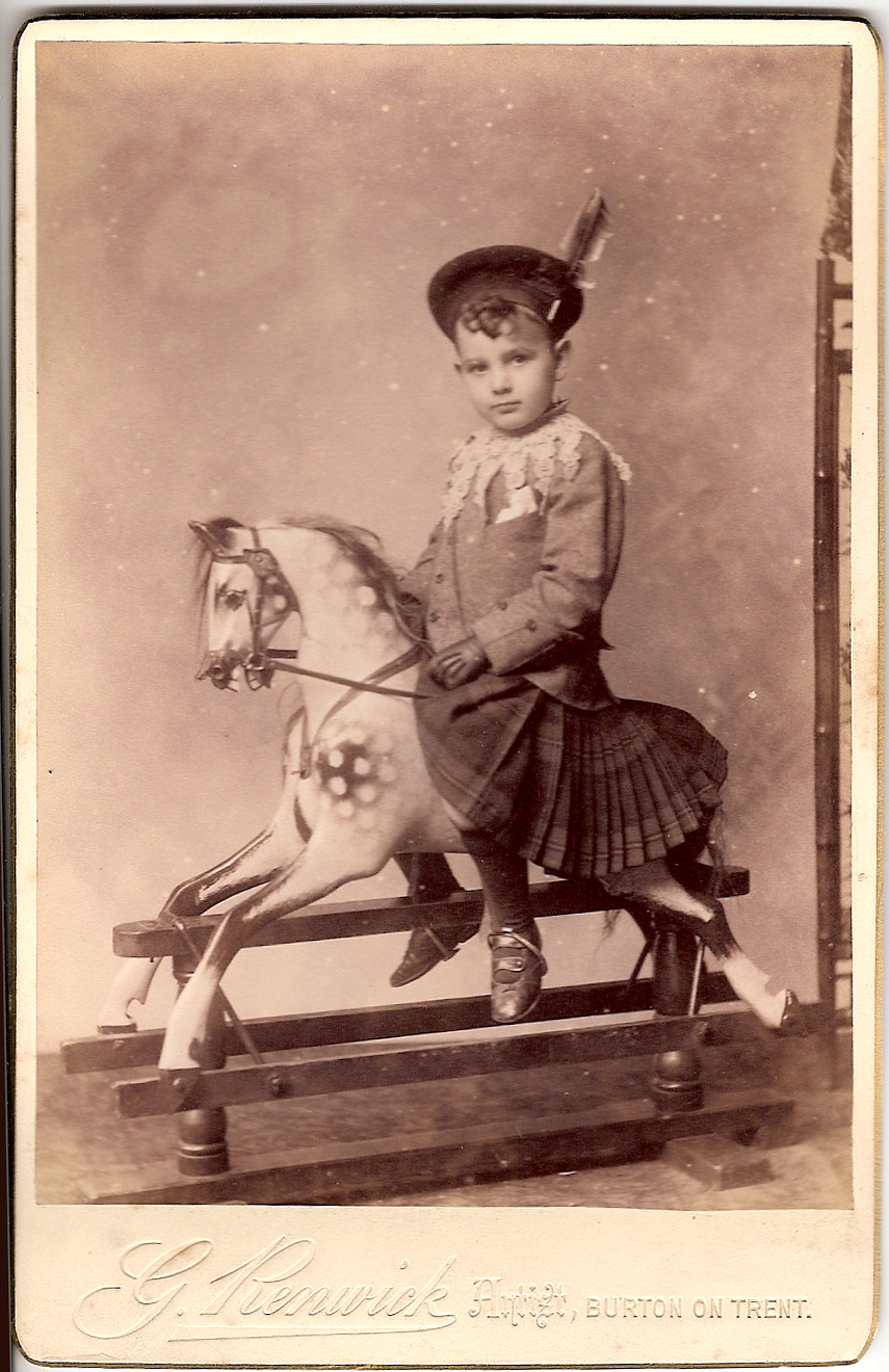 Identified on the reverse (see below) as Robert William Melbourne and dated September 1896, which would give a d.o.b. for Robert of c. 1892. From the studio of George Renwick, Burton on Trent This image, and others in the set, have been featured on Brett Payne's wonderful Photo-Sleuth blog. True to the blog name, Brett has uncovered a whole load of information about both Robert William and the photographic studio - see